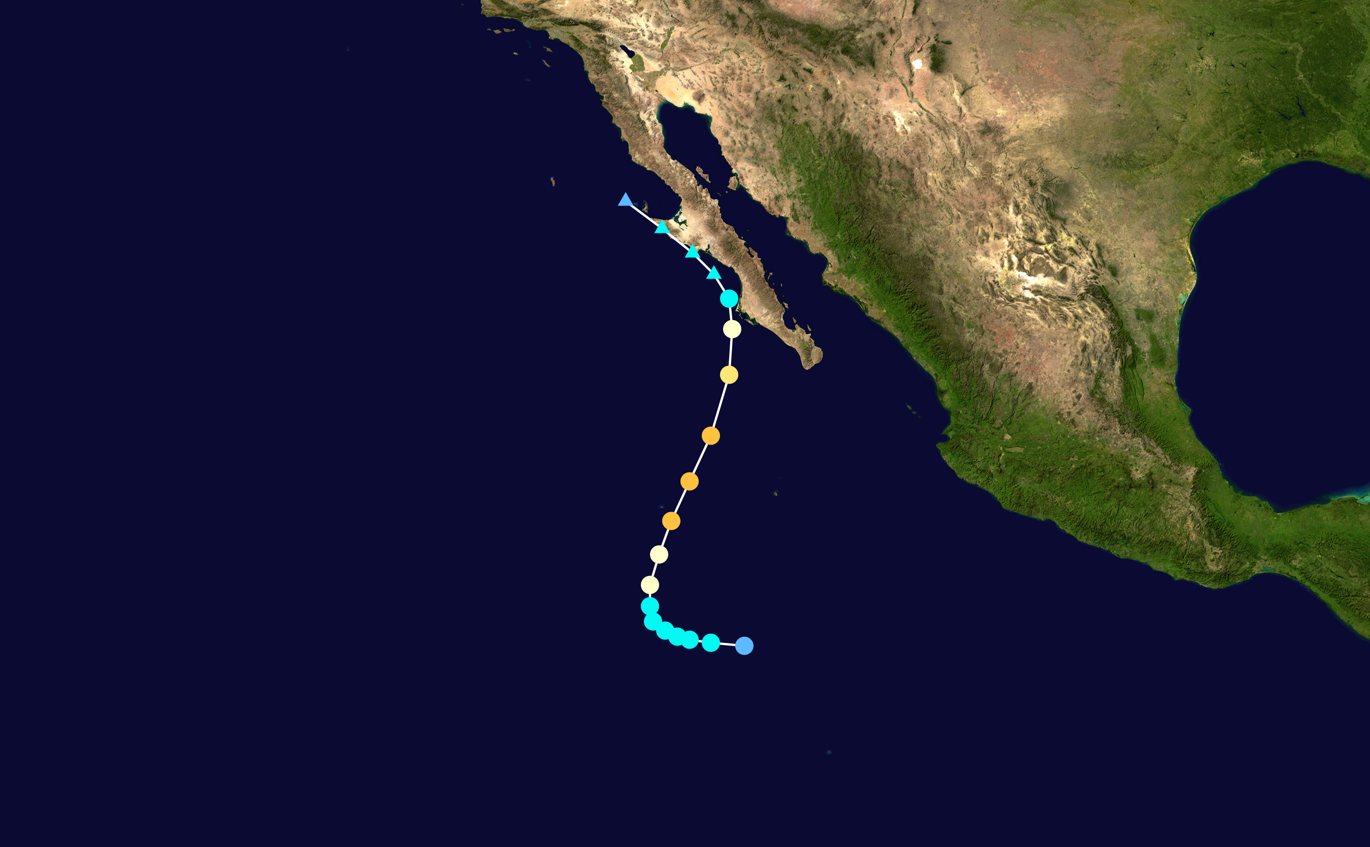 Track map of Hurricane Paul of the 2012 Pacific hurricane season and the 2012 Pacific typhoon season. The points show the location of the storm at 6-hour intervals. The colour represents the storm's maximum sustained wind speeds as classified in the Saffir–Simpson scale (see below), and the shape of the data points represent the nature of the storm, according to the legend below. Saffir–Simpson scale Tropical depression≤38 mph≤62 km/h Category 3111–129 mph178–208 km/h Tropical storm39–73 mph63–118 km/h Category 4130–156 mph209–251 km/h Category 174–95 mph119–153 km/h Category 5≥157 mph≥252 km/h Category 296–110 mph154–177 km/h Unknown Storm type Tropical cyclone Subtropical cyclone Extratropical cyclone / Remnant low / Tropical disturbance / Monsoon depression